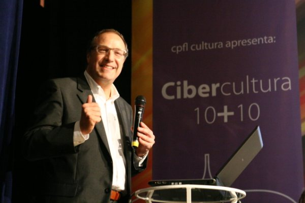 Pierre Lévy, information philosopher.